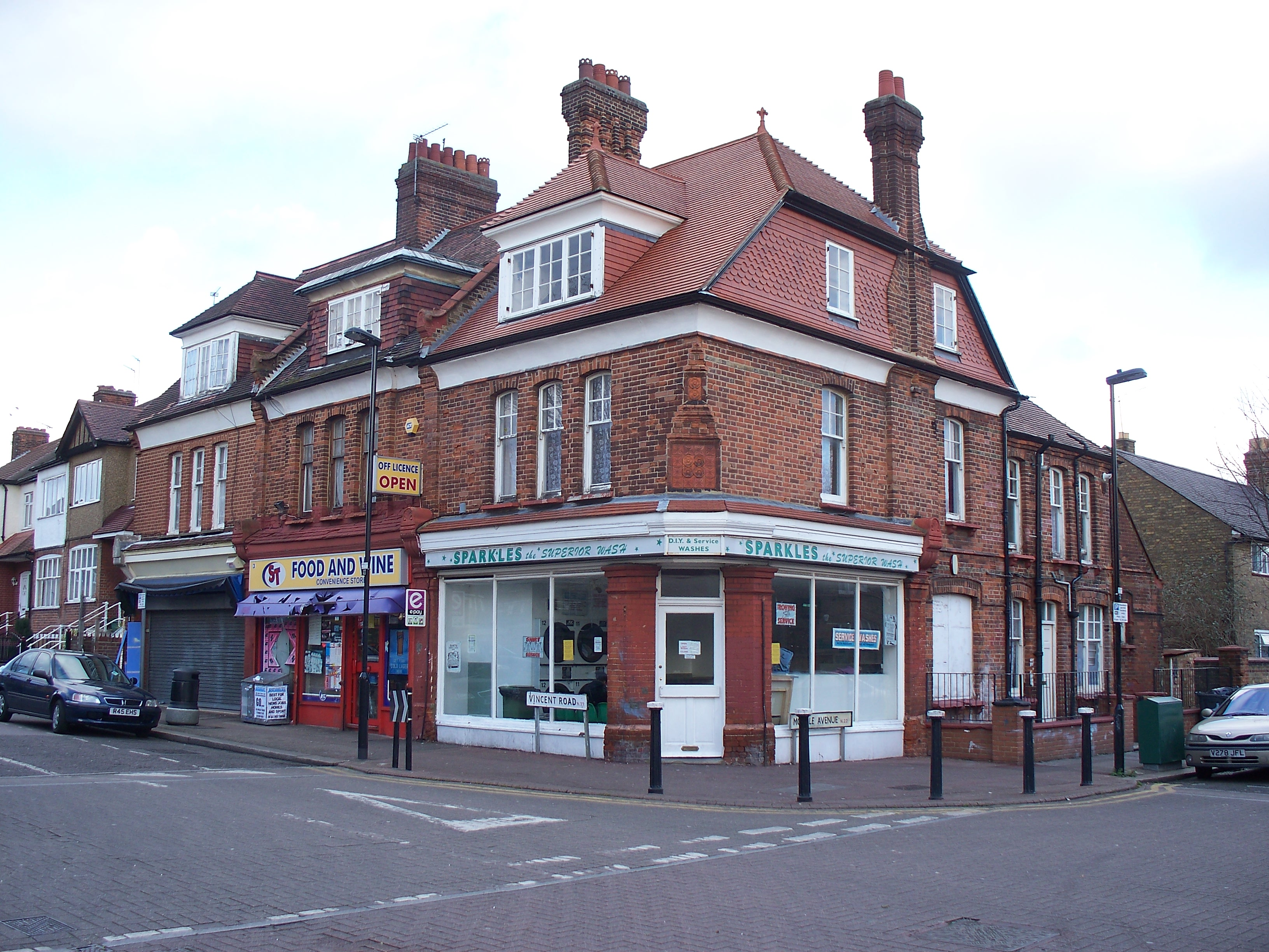 Shops on Vincent Road and Moselle Avenue, Noel Park, London N22. Photograph taken in a public location in the UK of a building on permanent public display, and exempt from copyright under Section 62 of the Copyright Designs & Patents Act 1988 ("it is not an infringement of copyright to film, photograph, broadcast or make a graphic image of a building, sculpture, models for buildings or work of artistic craftsmanship if that work is permanently situated in a public place or in premises open to the public")